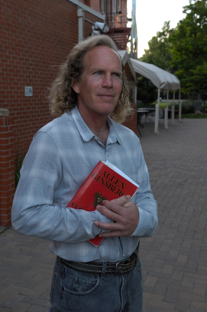 Jim Cohn on the Pearl Street Mall, 2009.